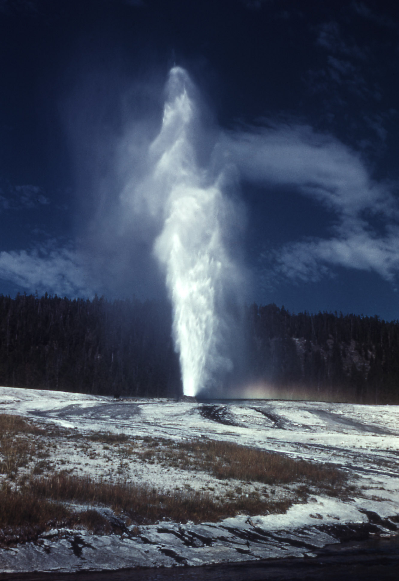 Beehive Geyser in Yellowstone National Park